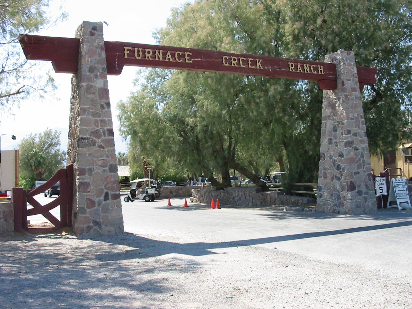 The Furnace Creek Ranch, Death-Valley-Nationalpark, California, USA